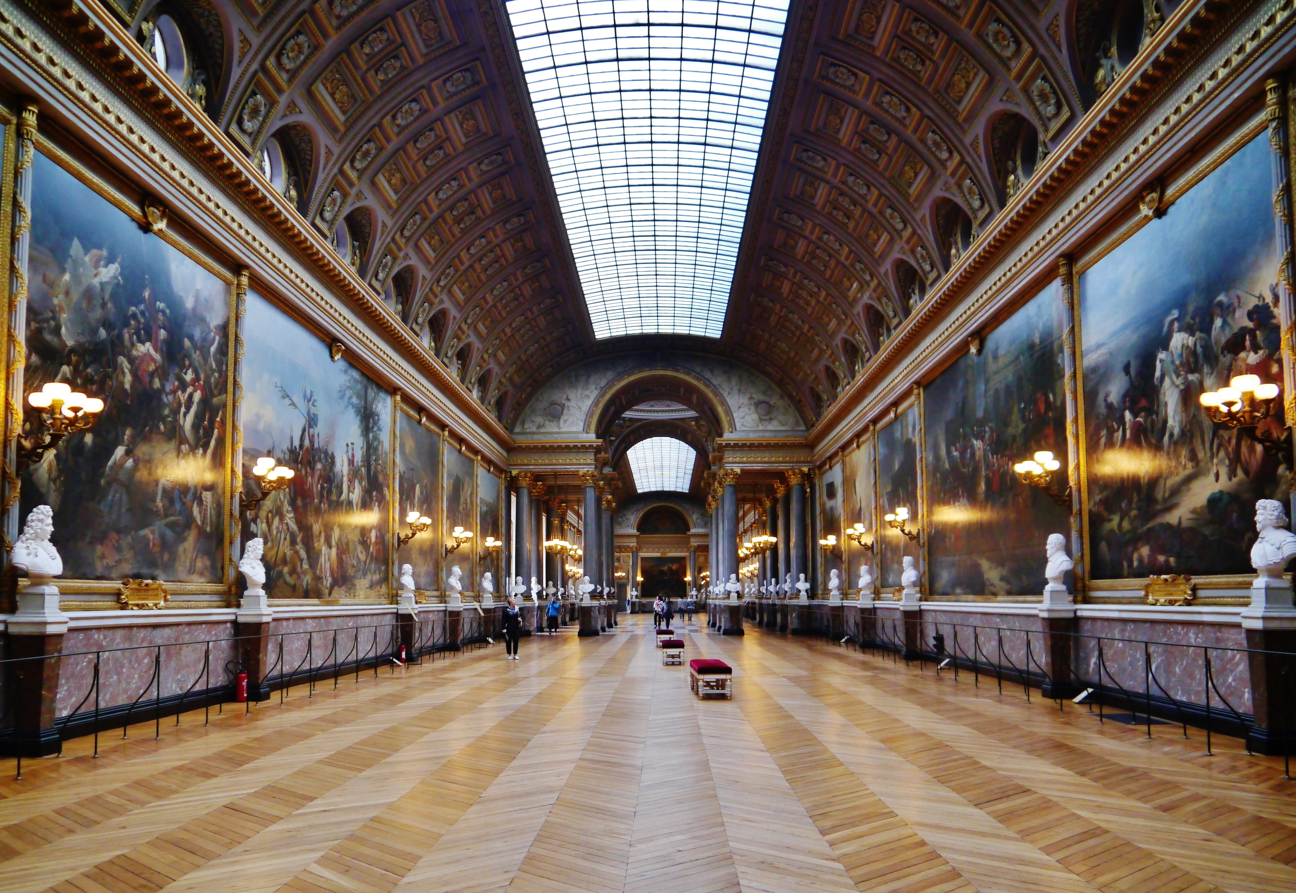 Gallery of the Battles inside Versailles Palace, Versailles, Département of Yvelines, Region of Île-de-France, France